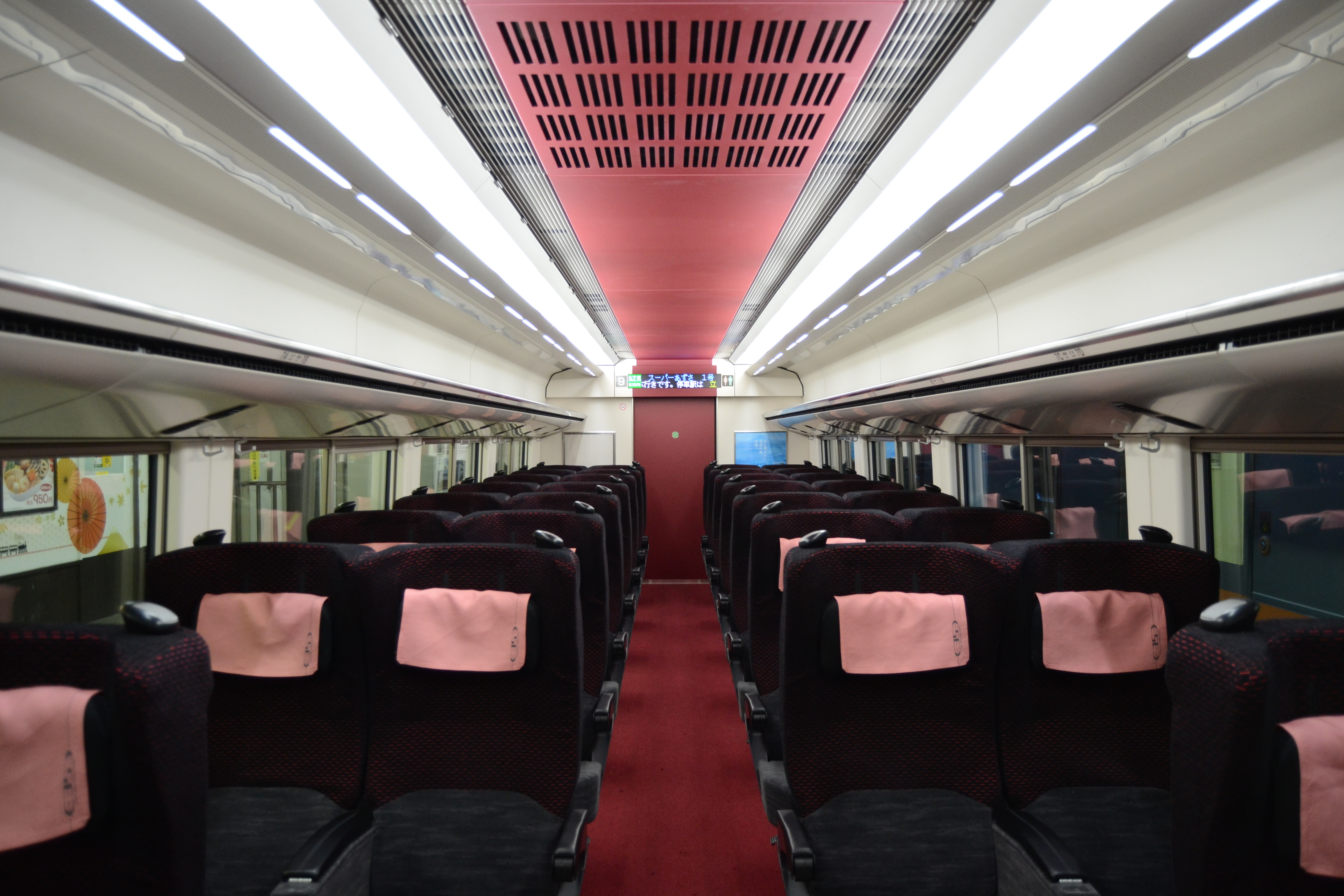 The interior of a JR East E353 series EMU Green car